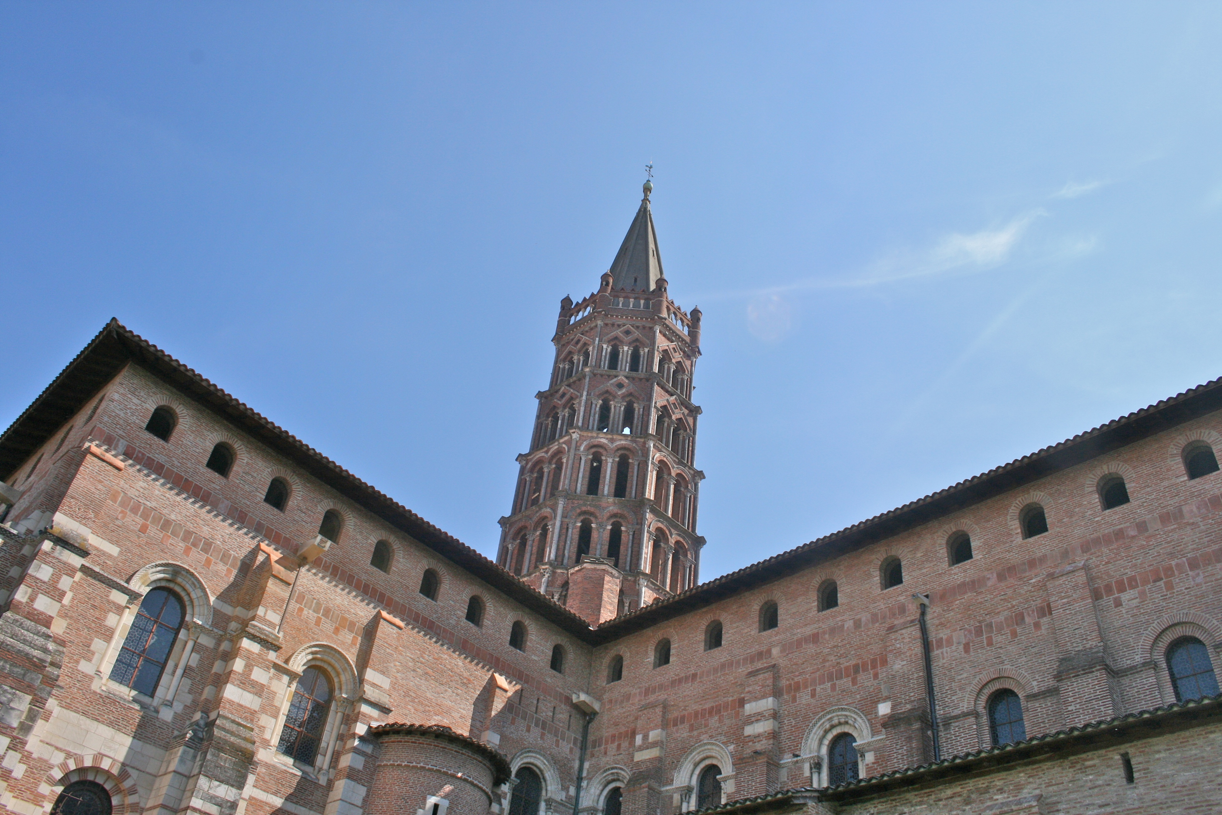 The Basilique St-Sernin, Toulouse, France.